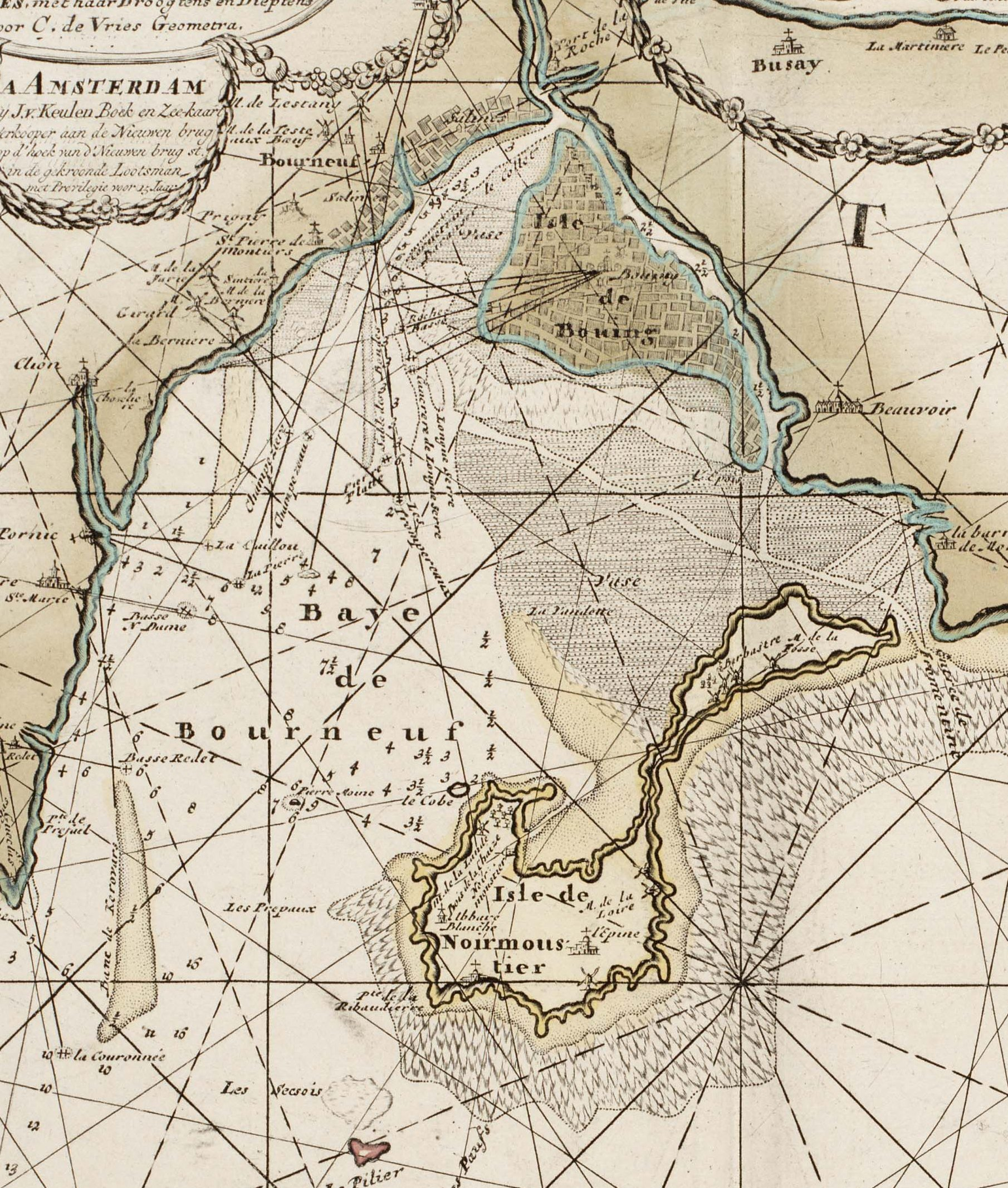 Nautical chart (closeup) of the Bay of Biscay at Loire, western France. 18th-century print.